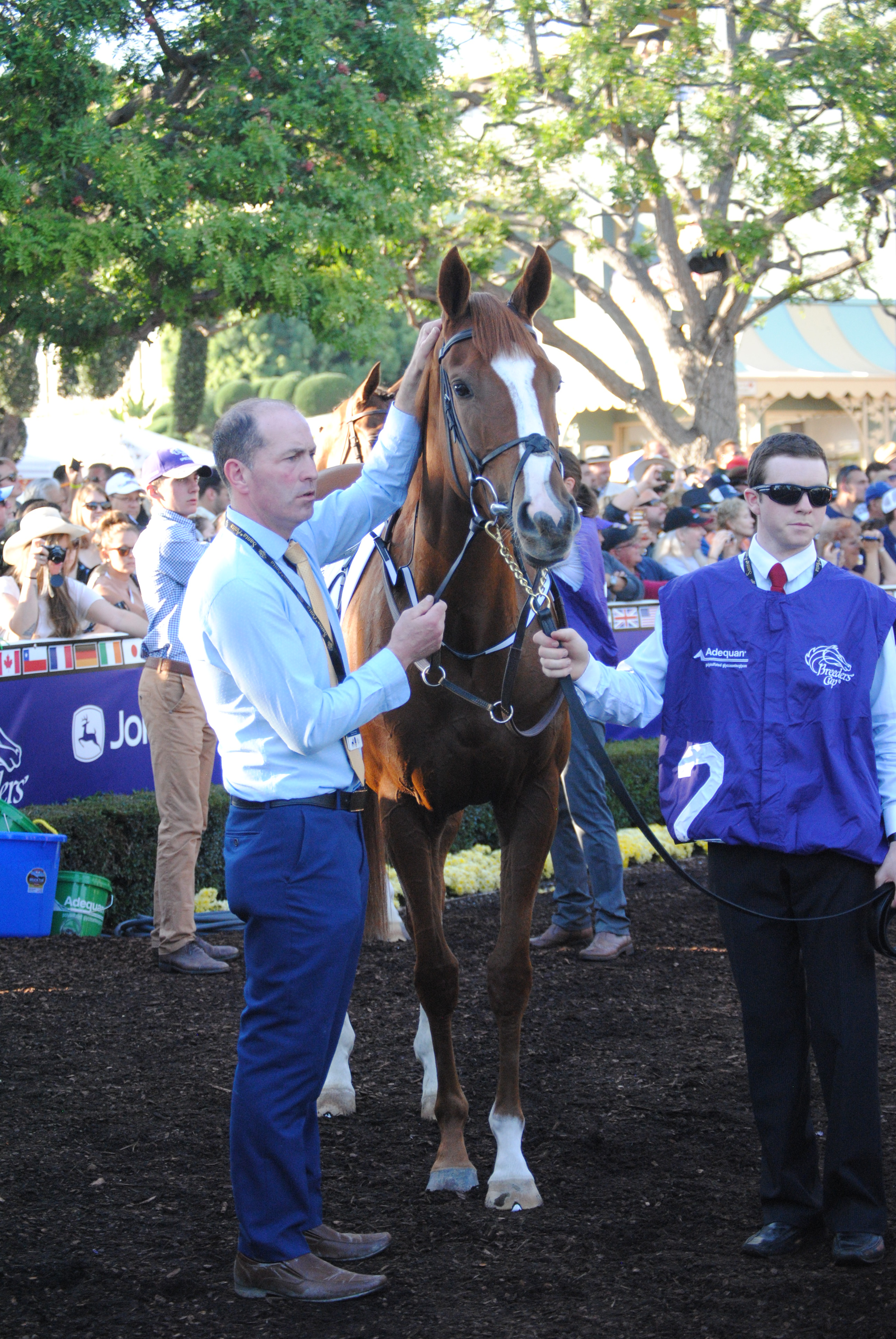 Alice Sprints waiting for the call for rider's up before the 2016 Breeders' Cup Mile